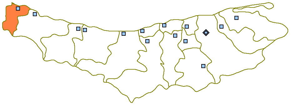 Tag: Ramsar location in Mazandaran